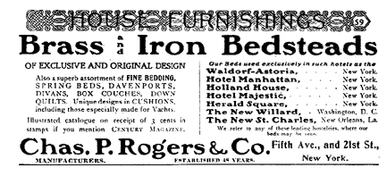 Early NY mail order catalog requestImage:Early_ny_catalog.jpg